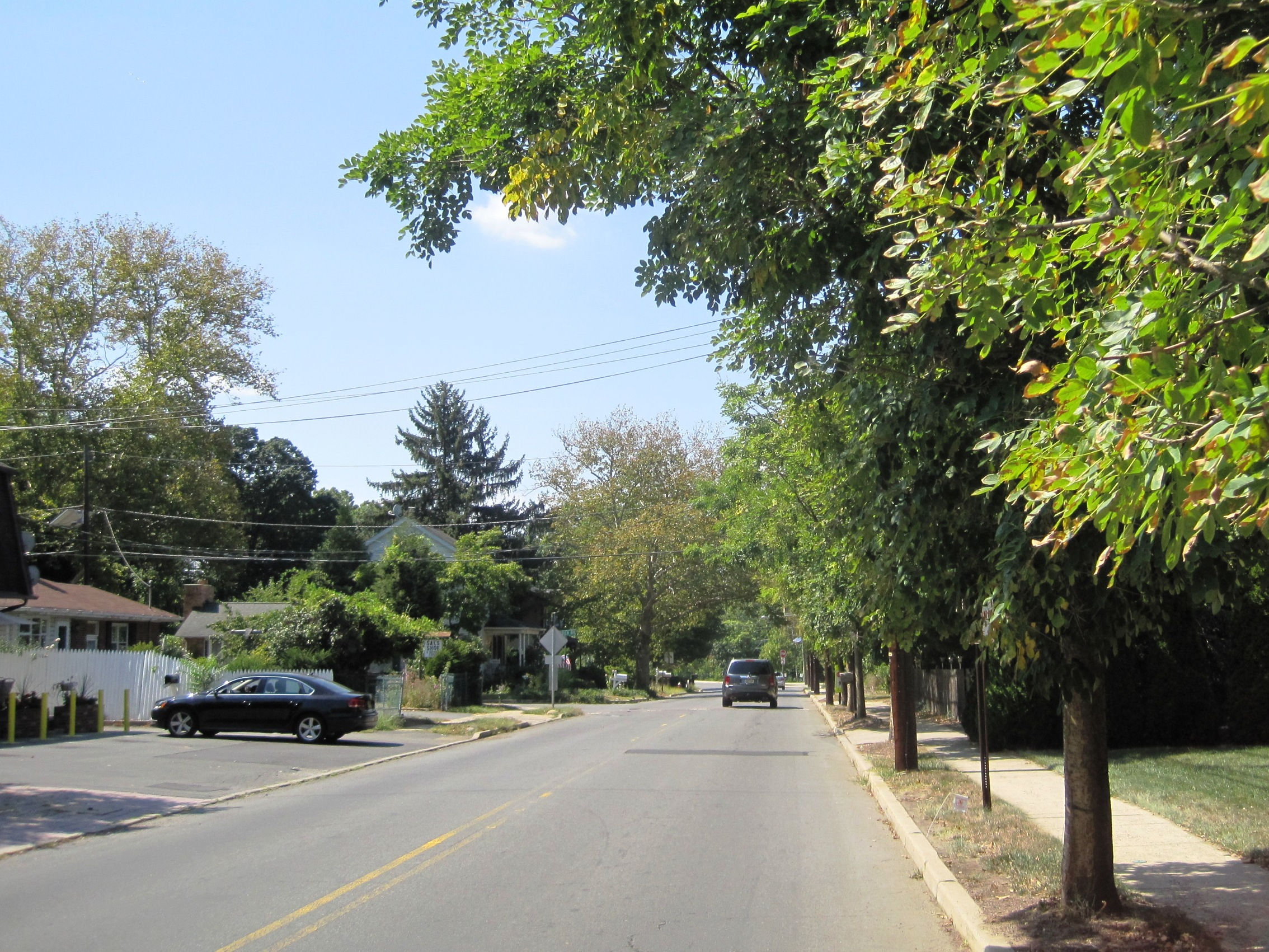 Photo of the unincorporated community of Berrien City, New Jersey within West Windsor Township. Photo taken along westbound Alexander Road past Scott Avenue